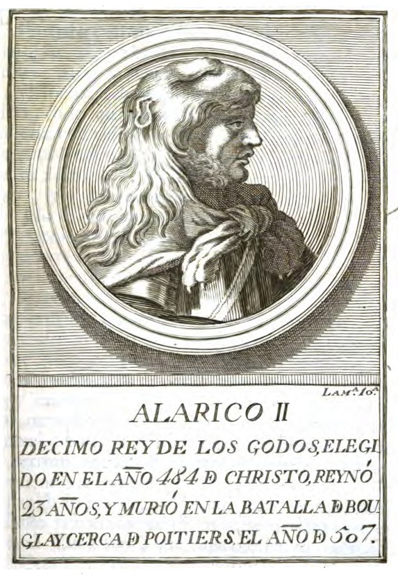 A poster of ALARICO, Visigoth king, n° 10 in the chronological order of the book digitalized by Google since the bookshop in the University of Oxford.